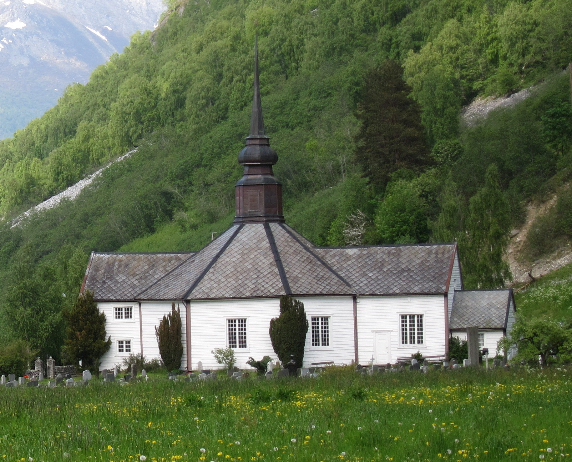 Dale (Norddal) church seen from Hallstad, south to north direction.